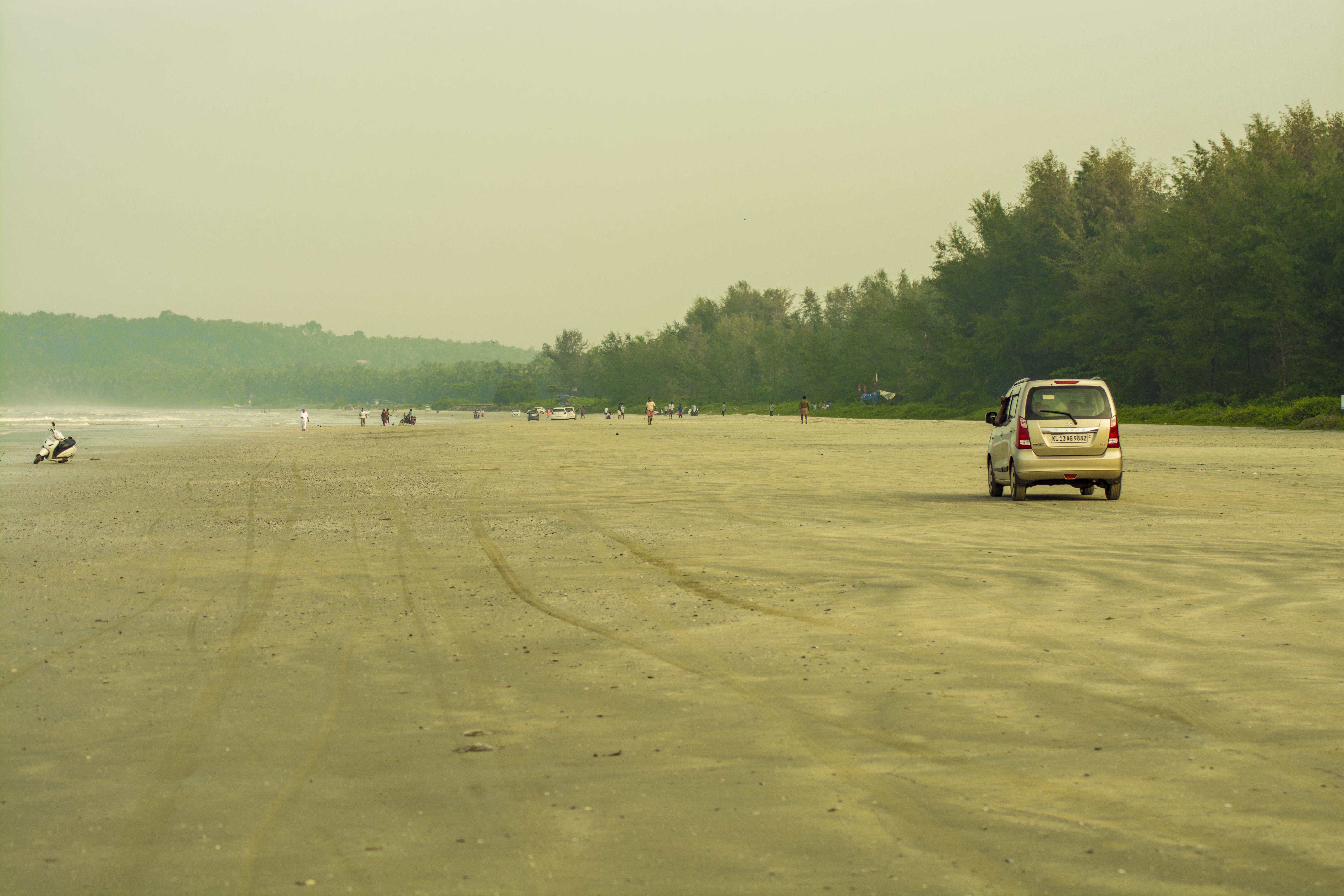 This beach is the longest Drive-In Beach in India